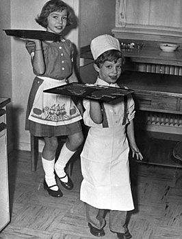 Crown Prince Carl Gustaf and his sister Christina baking ginger breads at the Royal Palace.